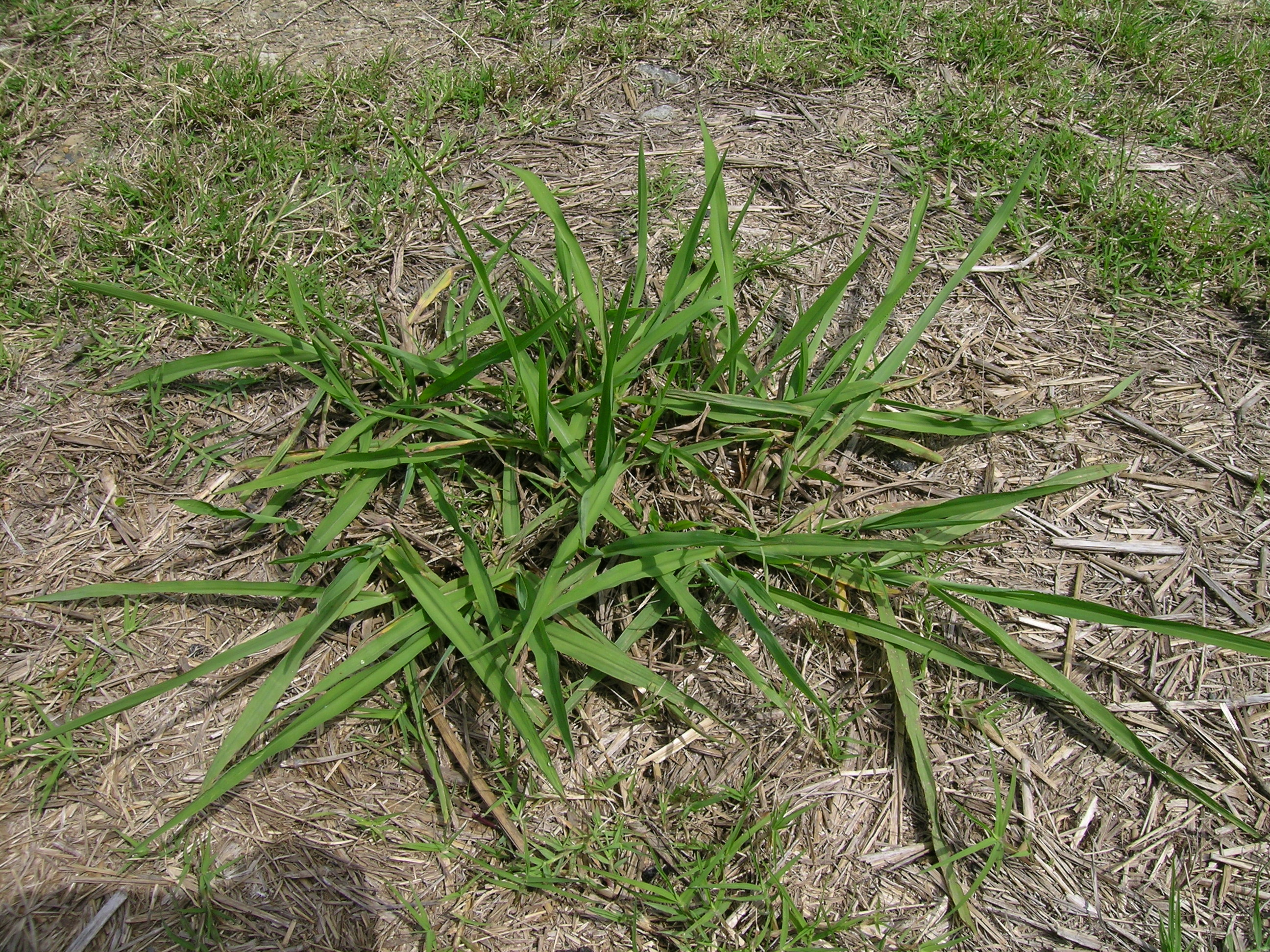 Introduced, warm-season, perennial, densely-tufted grass usually 50-90 cm tall. A native of south America, it was the most commonly sown grass on the north coast pre-1960 and is still sown today; now naturalised in many habitats. Grows on soils from acid low fertility sands to neutral fertile alluvial clays.